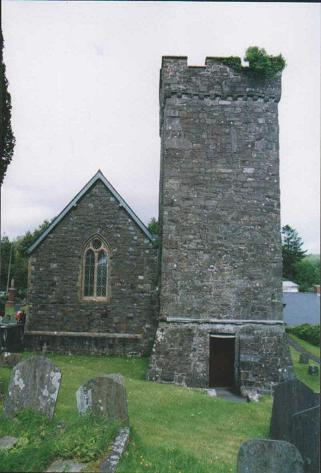 Photo of St Mary's church Llanllwch Wales